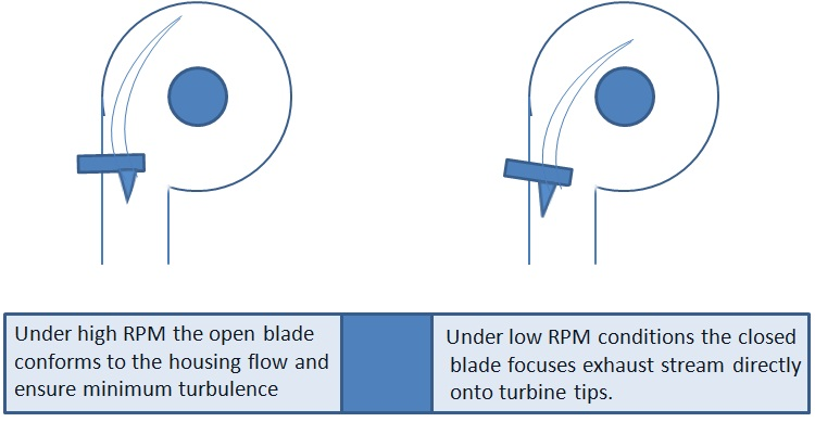 This diagram shows different vane configuration at high and low rpms